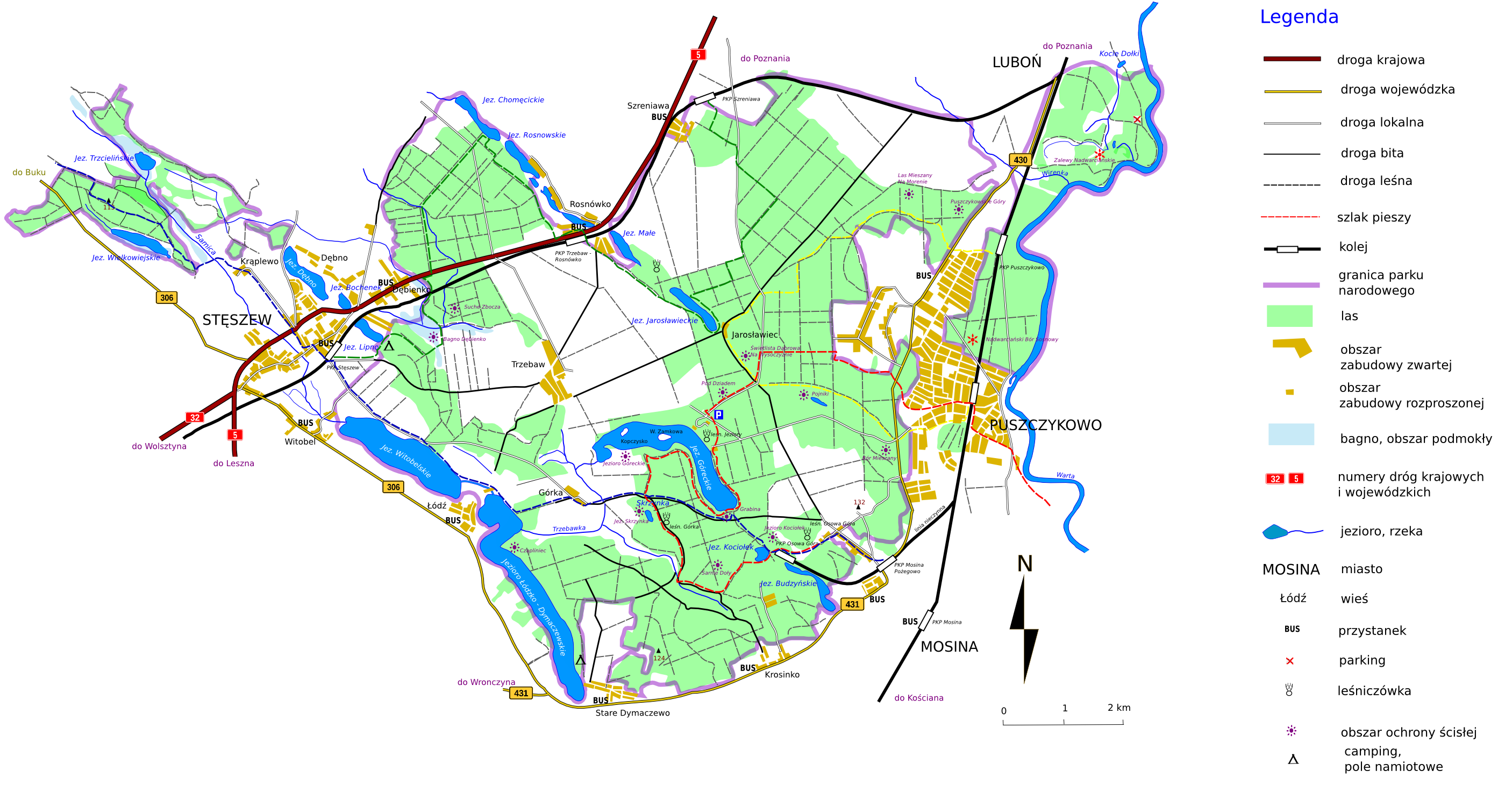 Topographic map of Wielkopolska National Park, Wielkopolska, Poland.